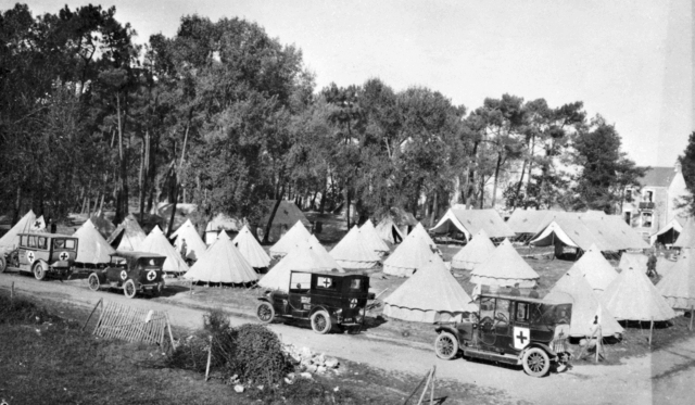 ST NAZAIRE, FRANCE, 1914. AUSTRALIAN VOLUNTARY HOSPITAL, 1914-09/11, WITH FOUR HOSPITAL CARS LINED UP ON THE ROAD IN FRONT OF THE TENTS. THE HOSPITAL WAS STAFFED BY LADY (RACHEL) DUDLEY'S UNIT. (DONOR D. MASSY).